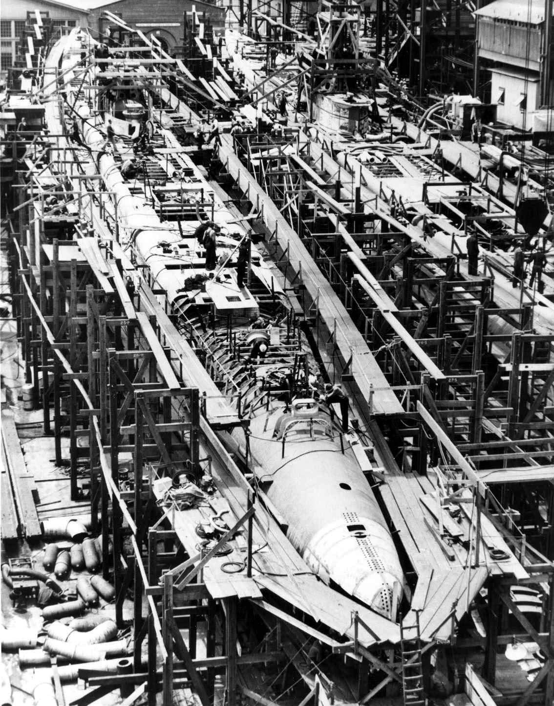 Tang (SS-306) on left, & Tilefish (SS-307) under construction at Mare Island Navy Yard, Vallejo, CA.